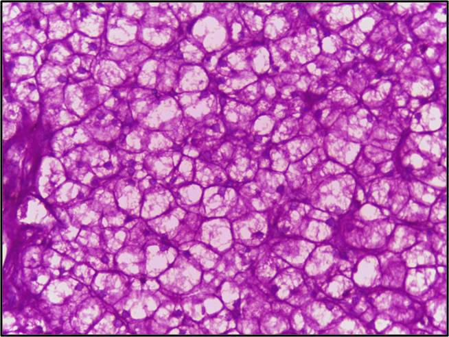 Liver biopsy of Glycogen Storage Disorder showing uniformly distended hepatocytes with clear to pale eosinophilic cytoplasm due to intracytoplasmic accumulation of glycogen giving a positive PAS reaction, 20X